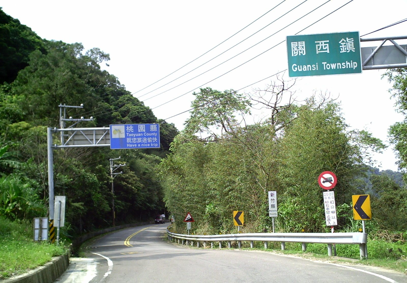 County Highway 118 in the border of Taoyuan City and Hsinchu County, Taiwan